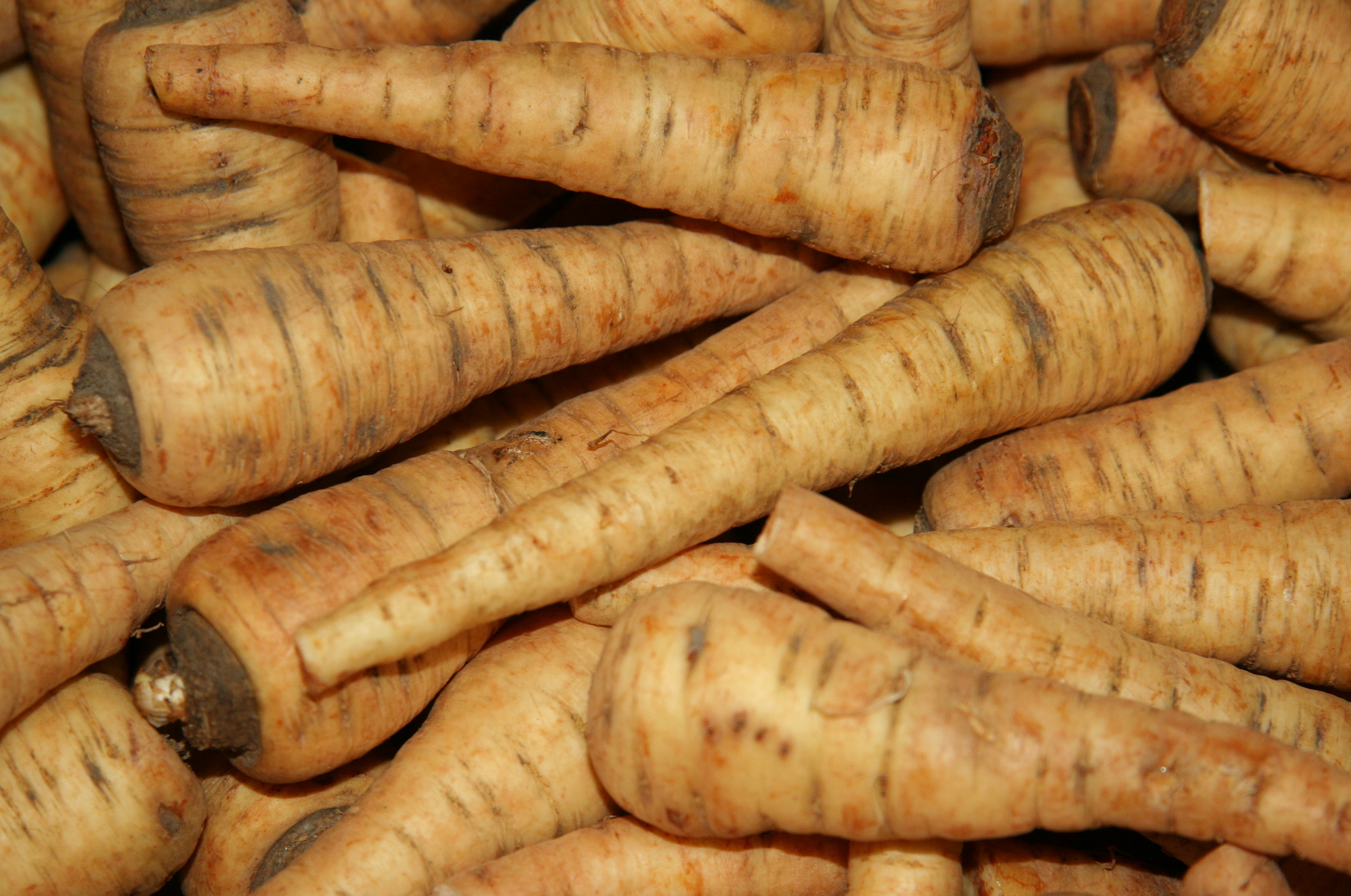 Parsnips offered for sale at a winter farmers' market in Rochester, Minnesota